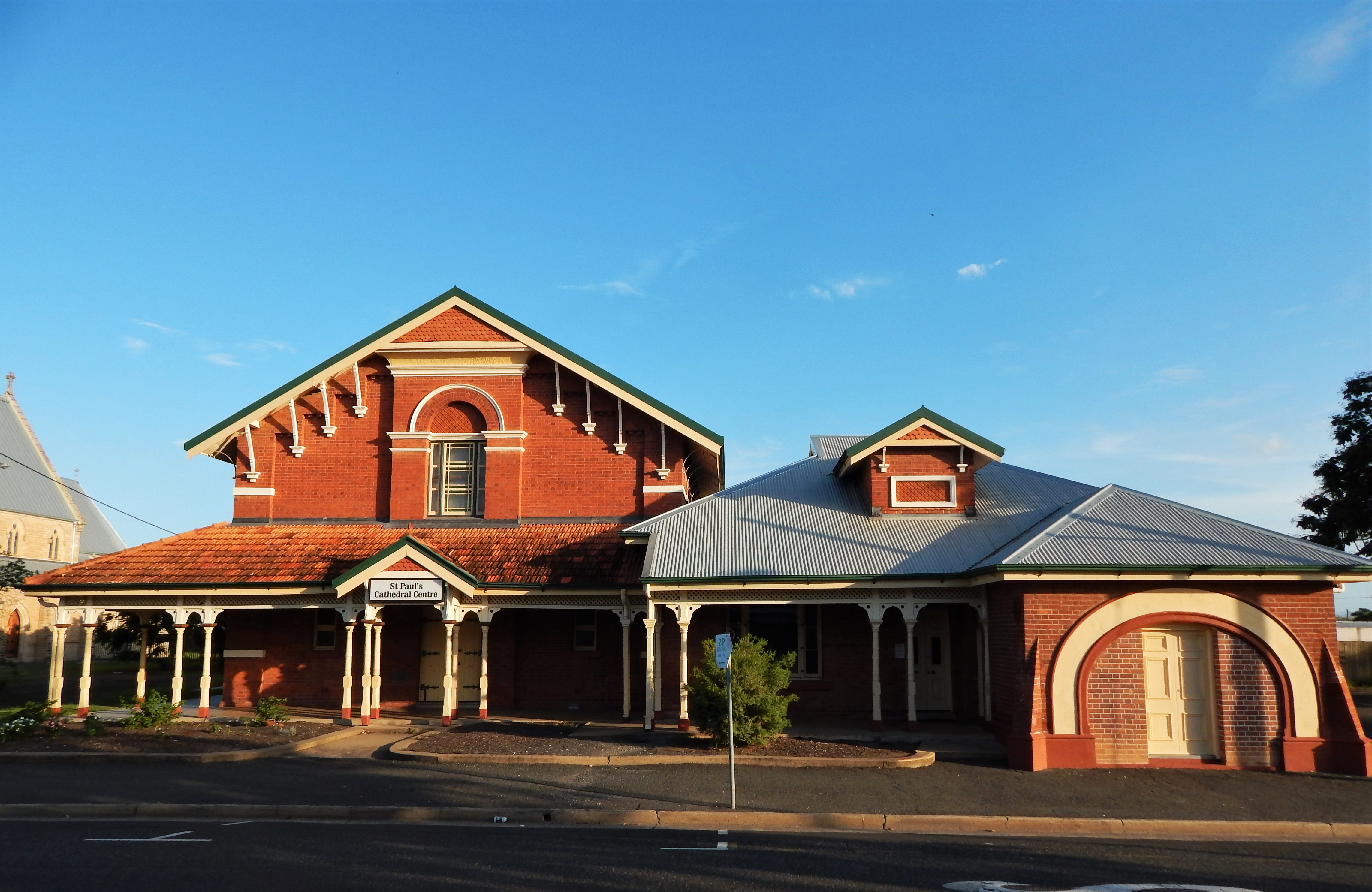 The heritage-listed St Paul's Anglican Cathedral Hall at 89 William Street, located next to St Paul's Cathedral. From 1901 until 1912, it housed the St Paul's Day School, and was the scene of the 1910 murder of Emily Salsbury who was gunned down at close range in front of horrified onlookers, in what was dubbed "The William Street Tragedy".